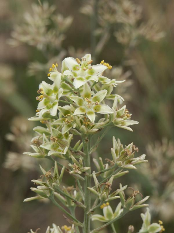 Anticlea elegans (syn. Zigadenus elegans) Sleeping Bear Dunes, Michigan